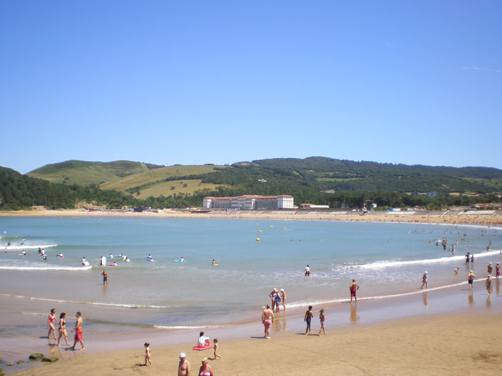 1 Gorliz and Astondo beaches in Basque country.